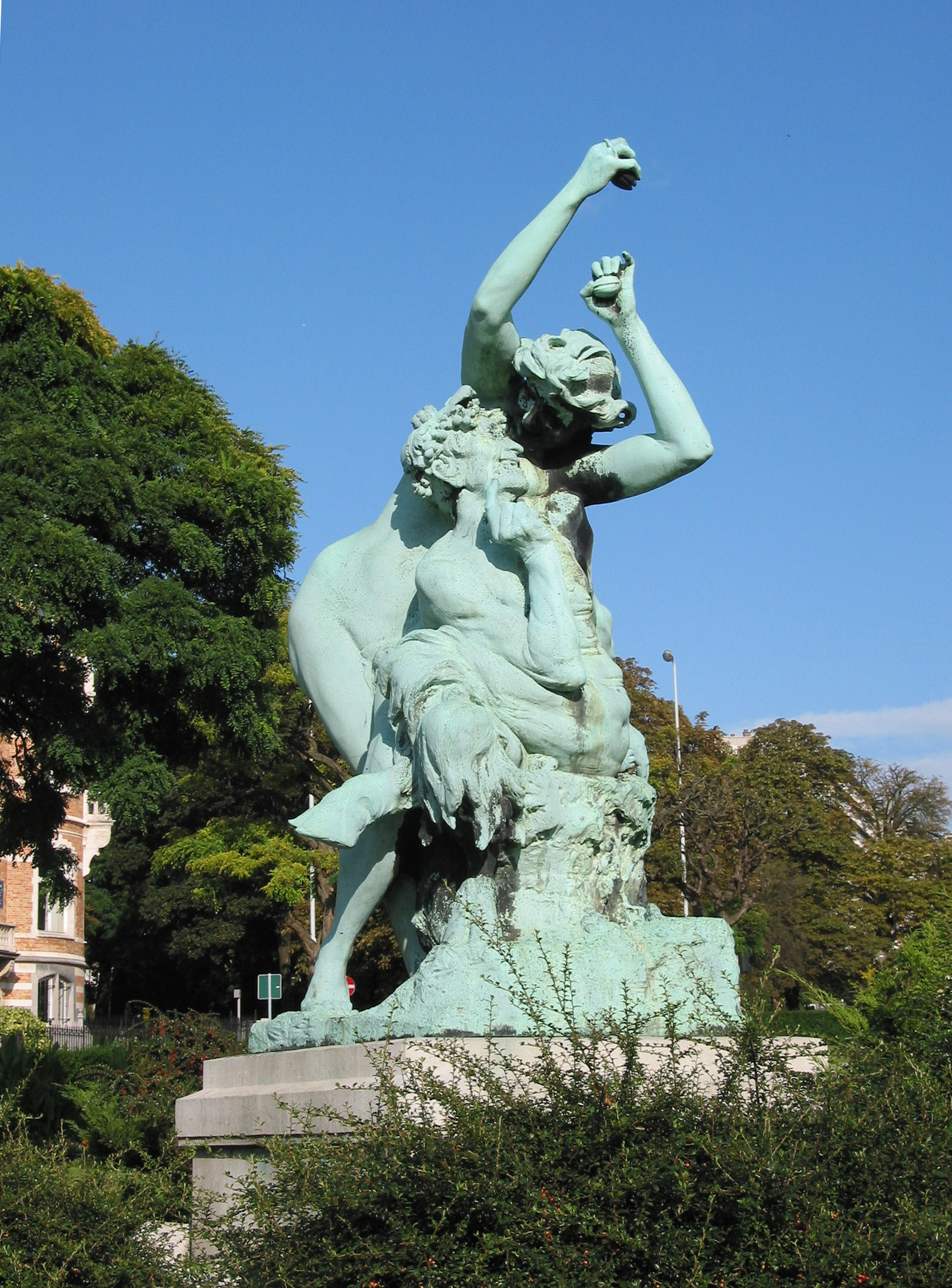 Brussels (Belgium), Square Ambiorix. La Folle Chanson (The Demented Song) sculpture by Jef Lambeaux (1898).